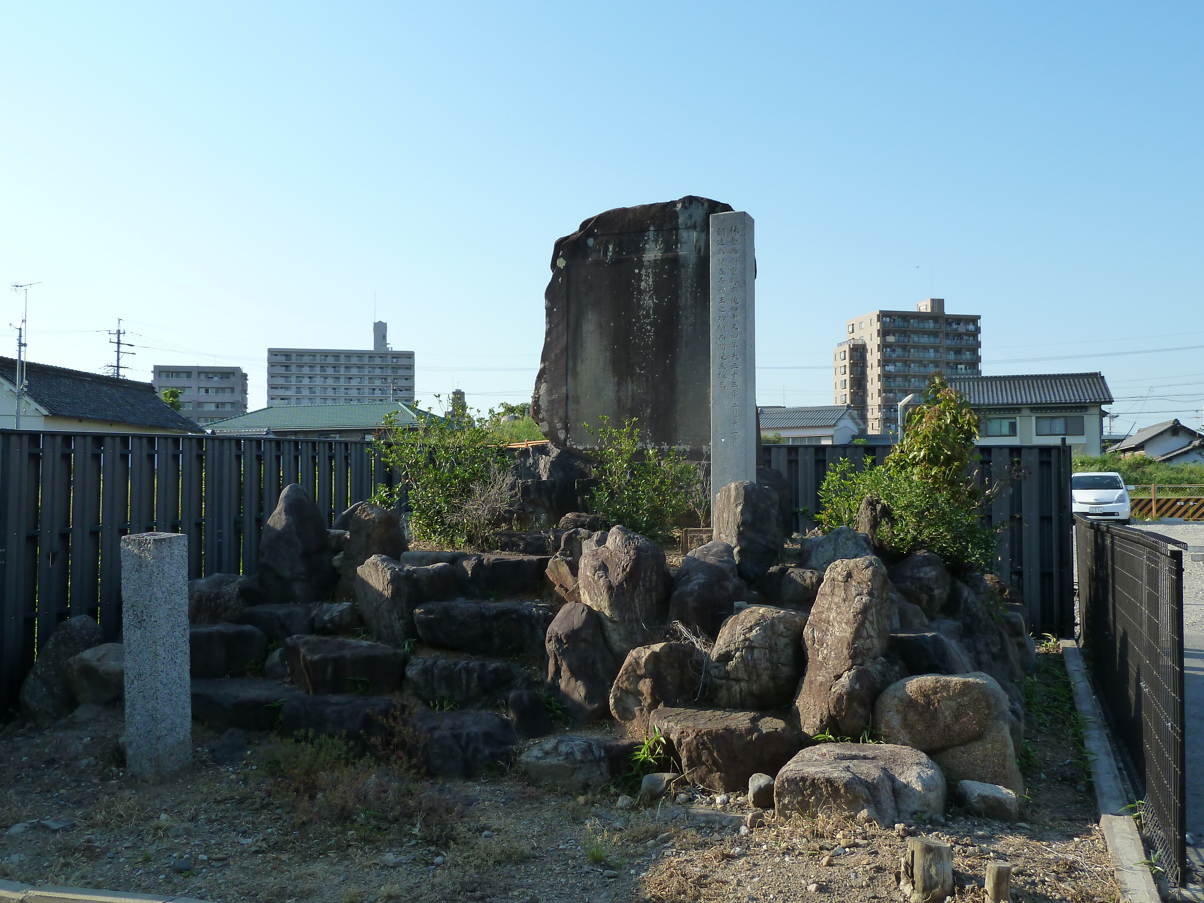 愛知県春日井市の上条城跡にある石碑